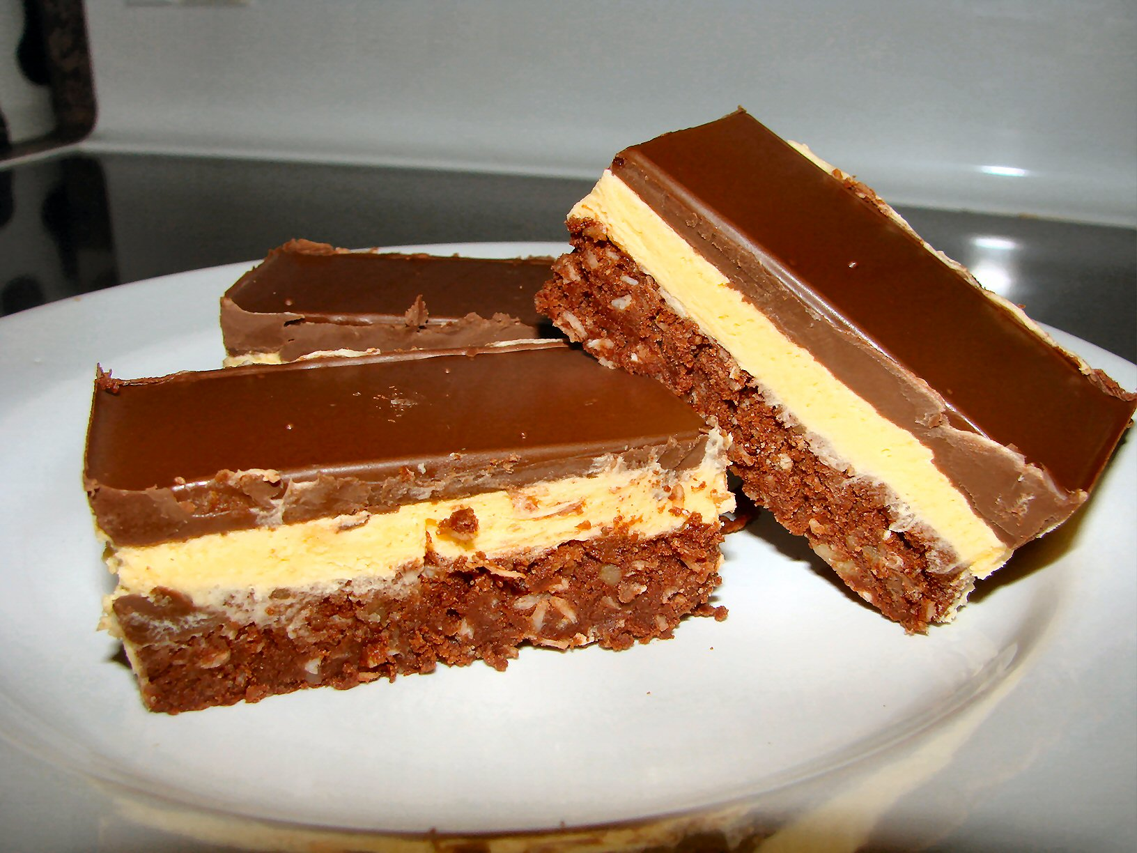 Nanaimo bars, with flash